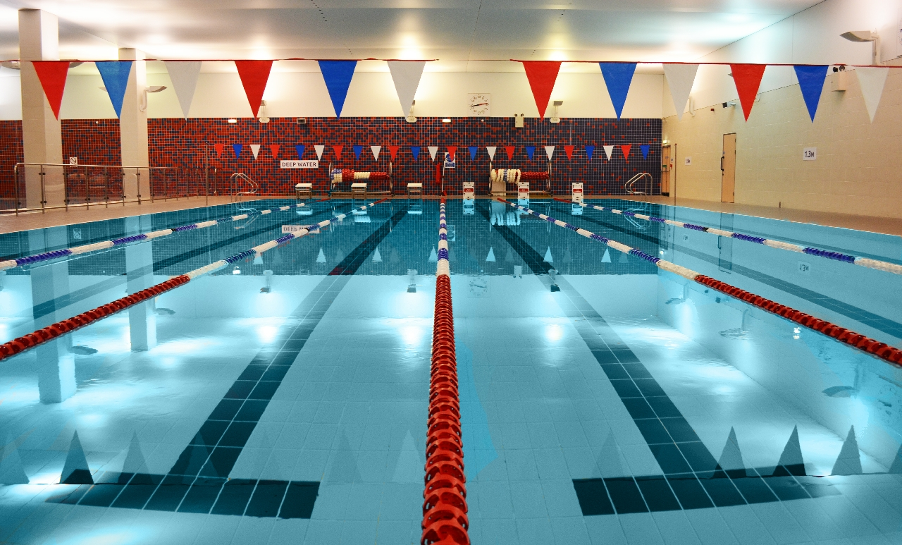 Basingstoke Sports Centre's 25m Pool